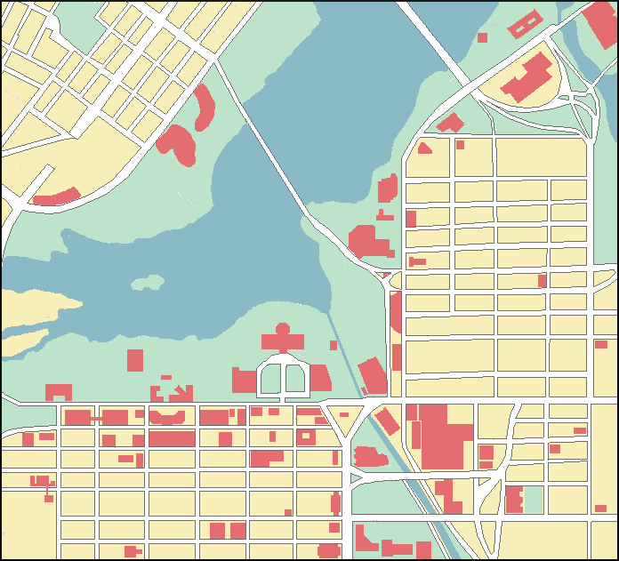 Map of downtown Ottawa (see Template:Ottawa map for version with image labels). Category:Images of Ottawa